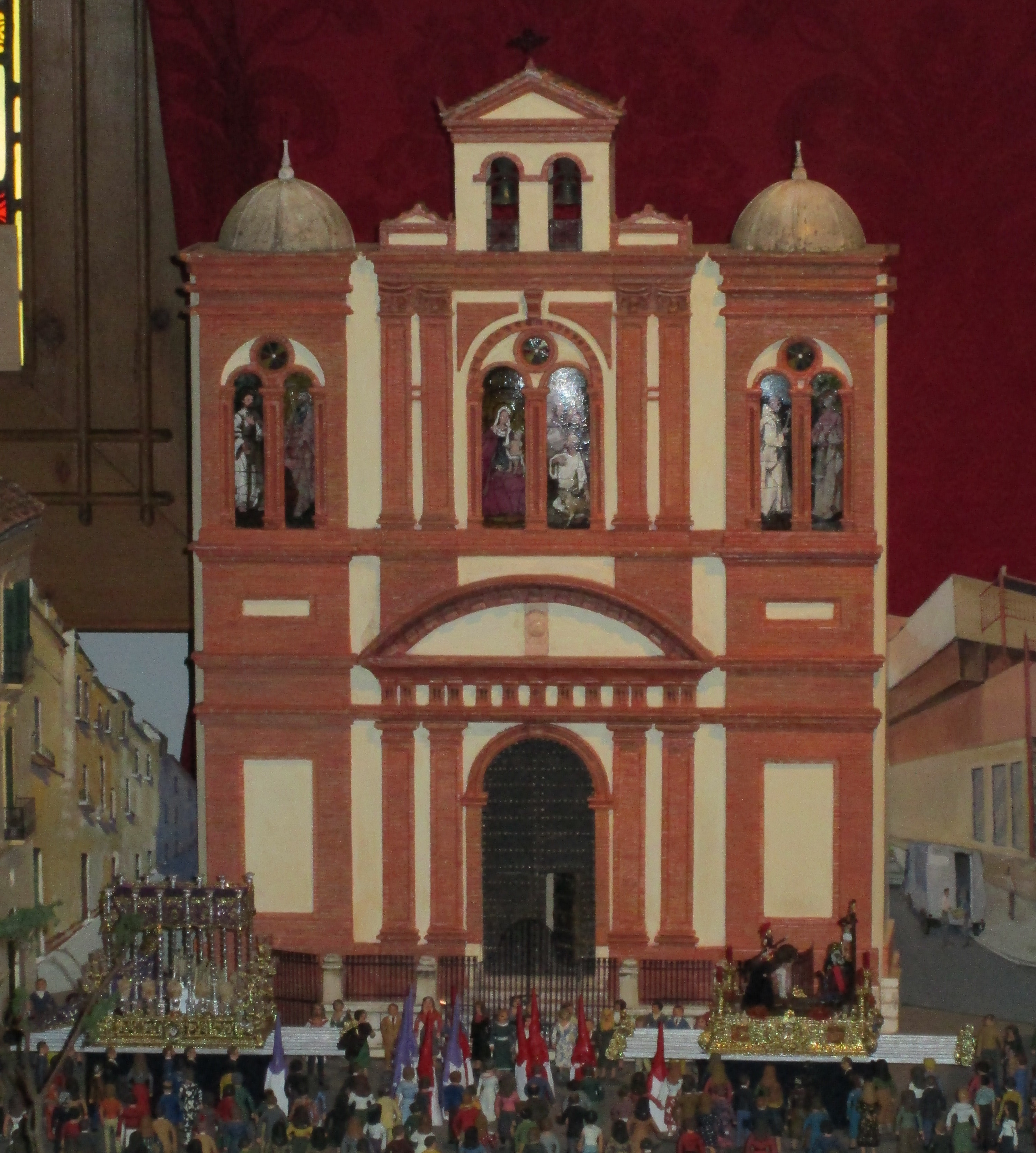 Museo del Vidrio y Cristal, Málaga